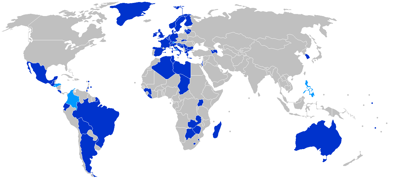 States parties and signatories to the 1951 Convention Relating to the Status of Stateless Persons. States parties are dark blue; non-states parties signatories are light blue; non-state parties non-signatories are grey.